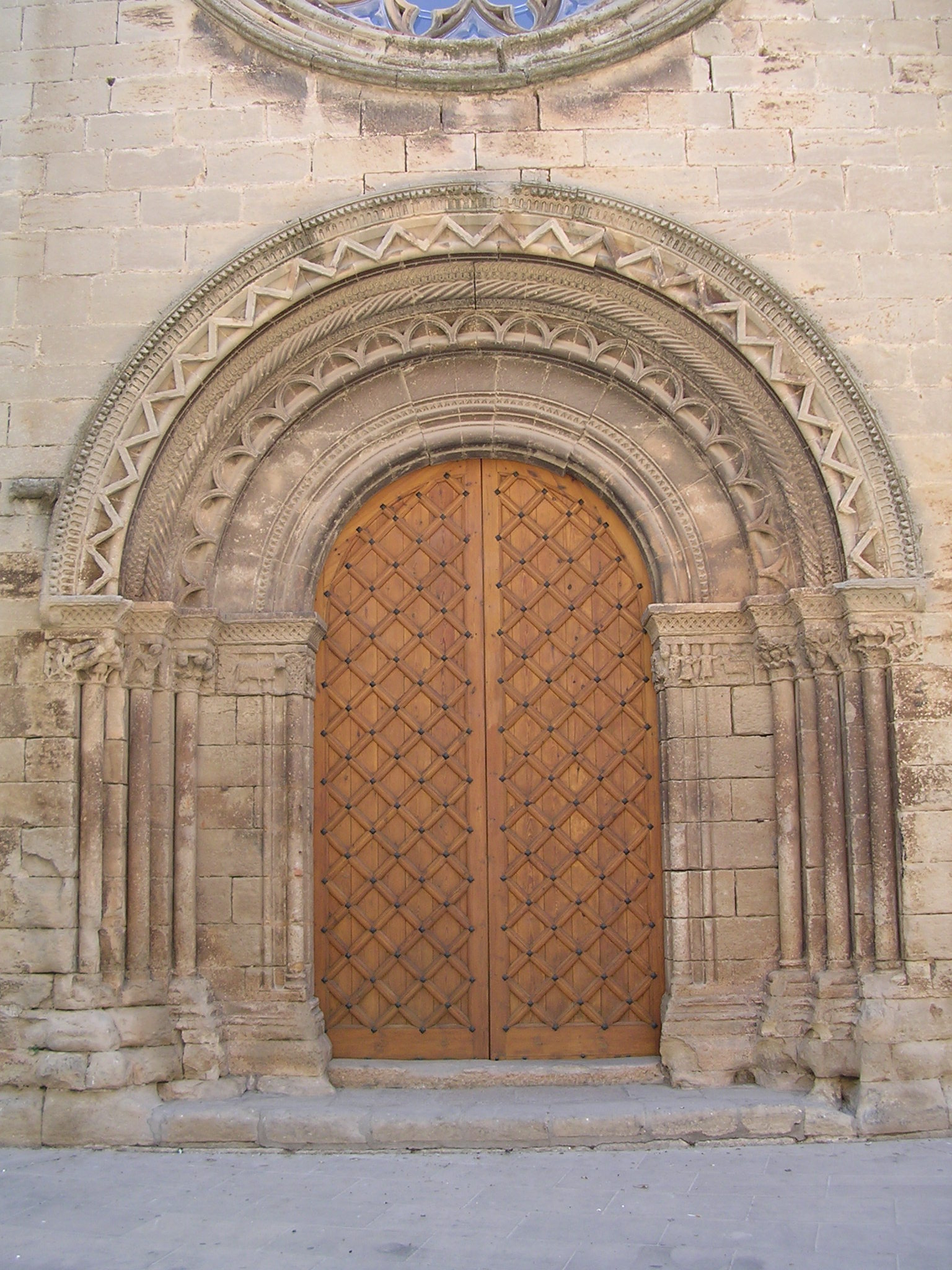 Romanesque portal of the church in Verdú (Catalonia)